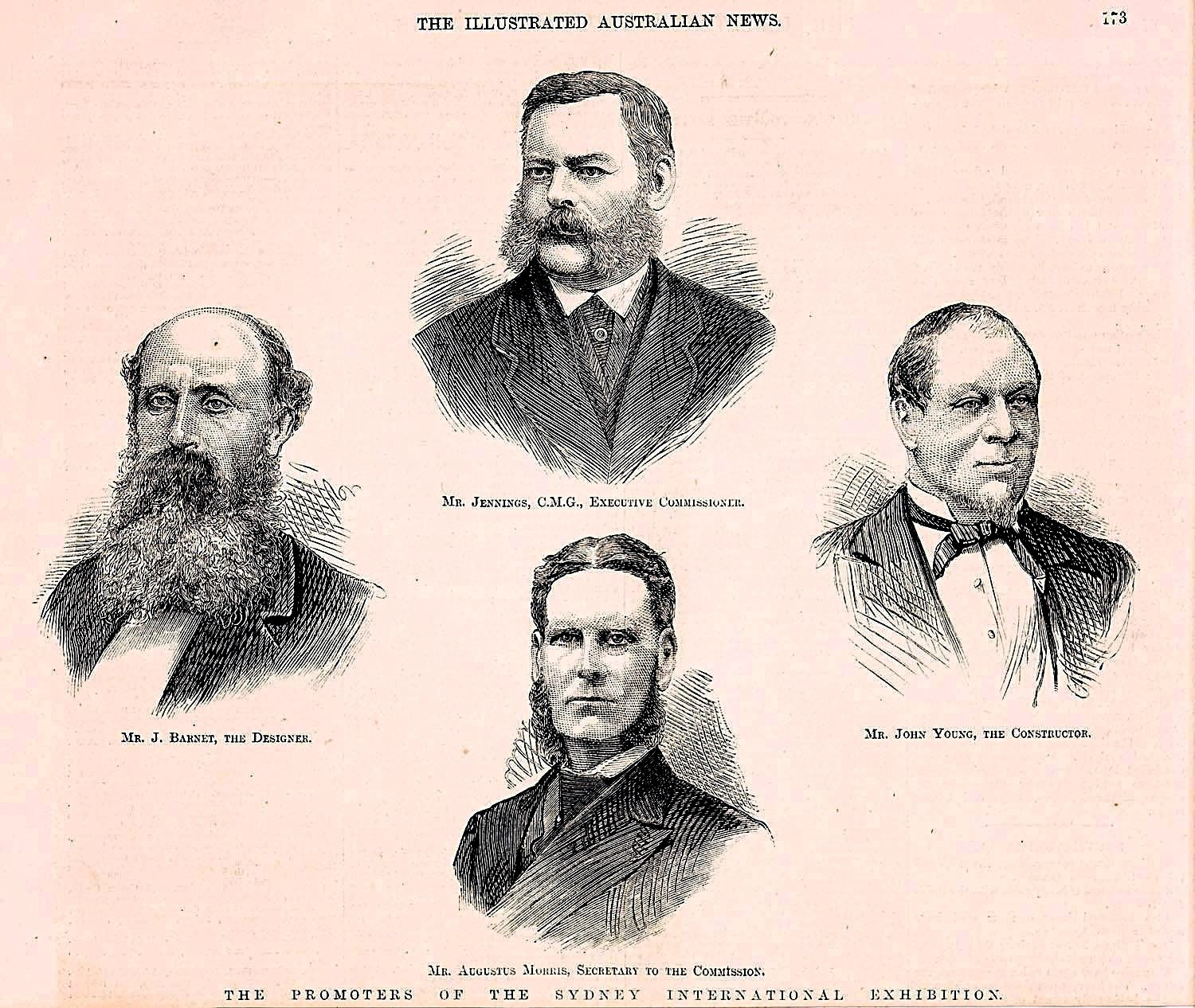 The Promoters of the Sydney International Exhibition. "The Illustrated Australian News".